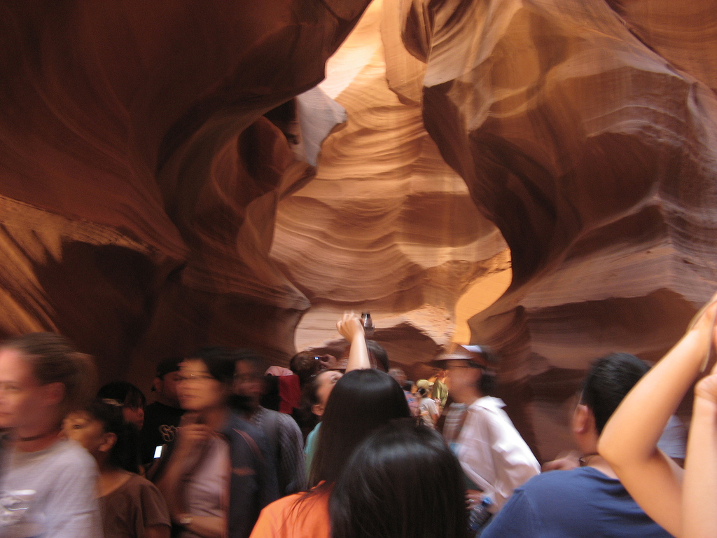 The photo showing crowded at Upper Antelope Canyon, original photo is at